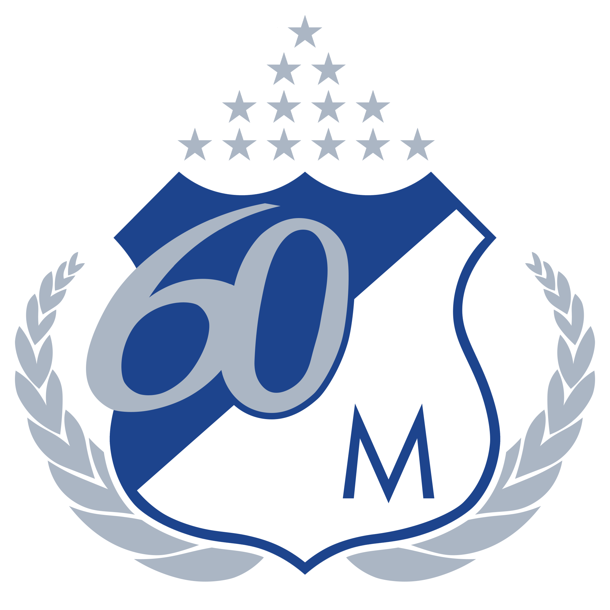 mfc 60